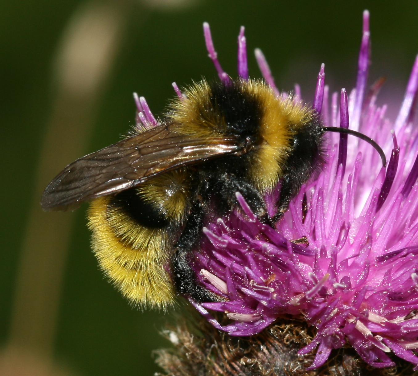 Field cuckoo bumblebee (Bombus campestris), Fala, Midlothian, Scotland